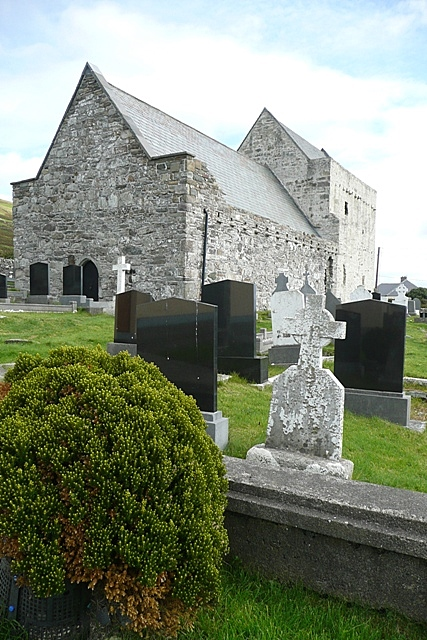 Clare Island Abbey A cell of Cistercian monks built the abbey in the mid 13th century, although it was rebuilt around 1460. It is where Granuaile (Grace O'Malley) is reputed to be buried. There is a tomb inside but no one knows for sure if it is hers. There are also some of the best medieval wall paintings in Ireland in the abbey (no inside photos allowed).